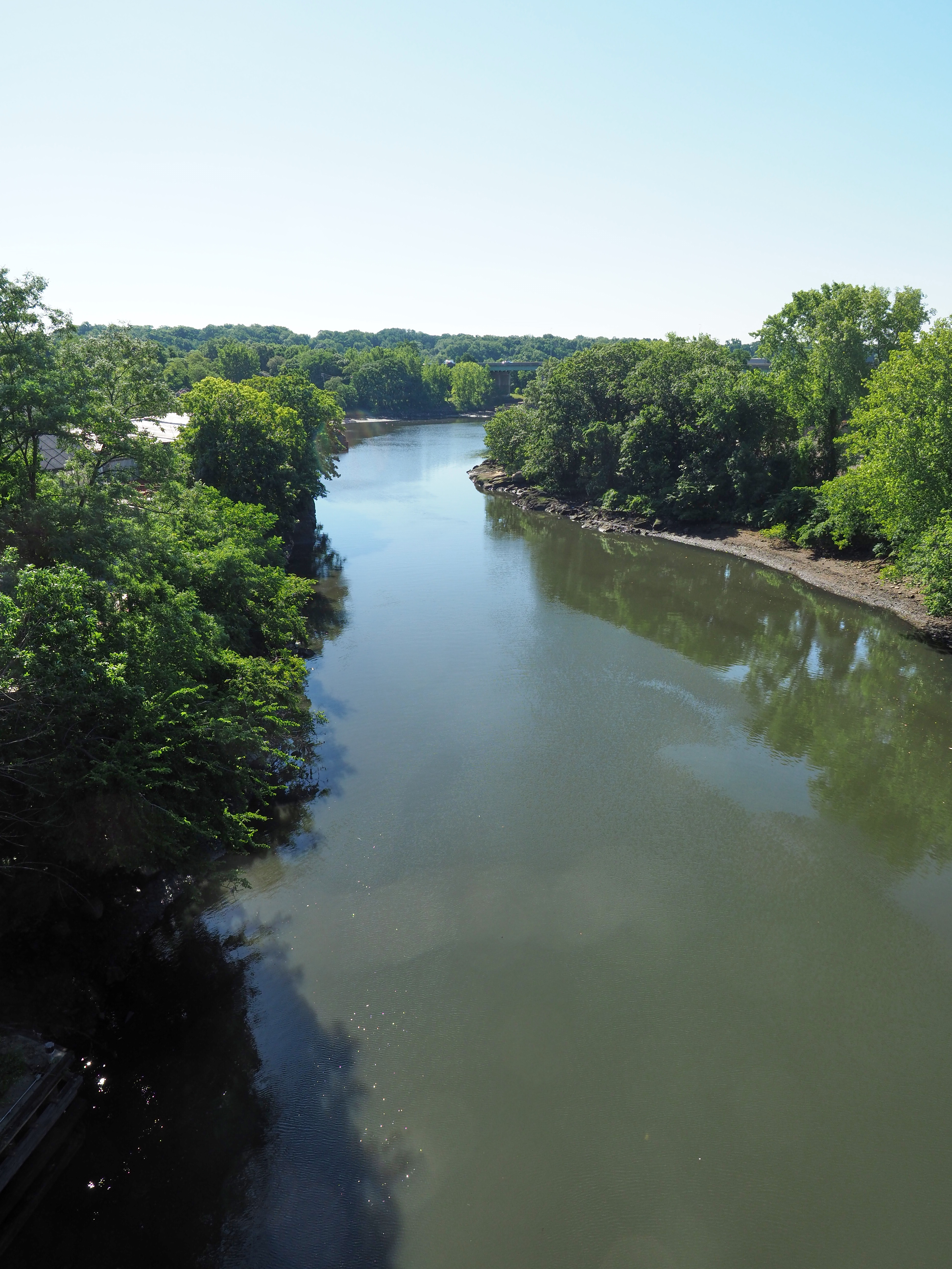 US I-95 bridge is visible in the background, just below the tree line.